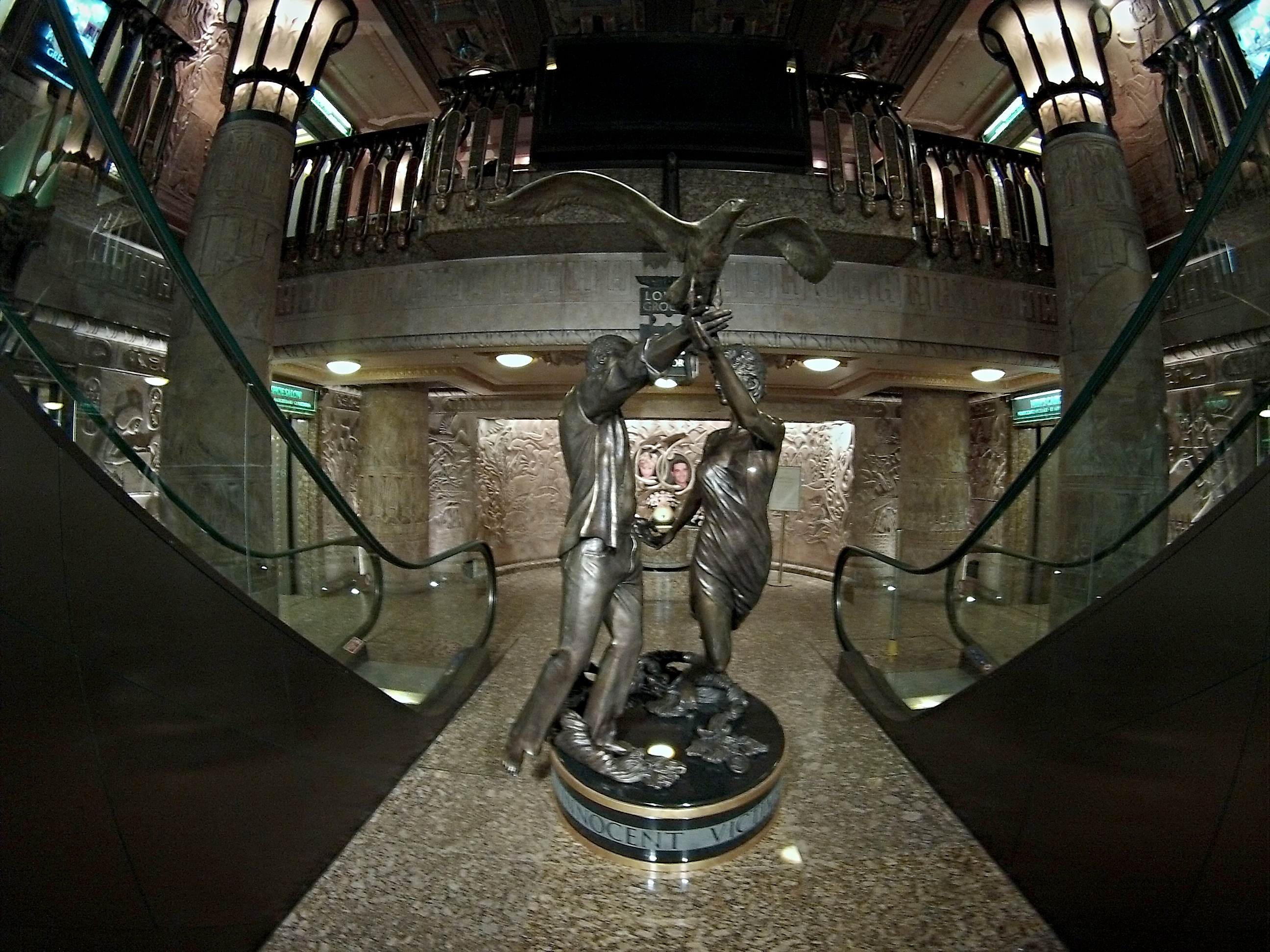 The bronze statue of the couple dancing is entitled "Innocent Victims" and is located at Door Three in Harrods. It is a life-sized sculpture of Princess Diana and Dodi Fayed gazing lovingly into each other's eyes as they release an albatross into the sky.